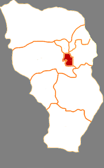 Locator map of Yuquan District in Hohhot City, Inner Mongolia, China